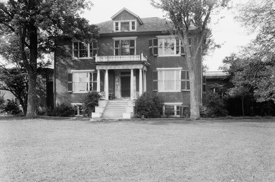 Dewberry, Little River vicinity, Gum Tree vicinity (Hanover County, Virginia) cropped This file comes from the Historic American Buildings Survey (HABS), Historic American Engineering Record (HAER) or Historic American Landscapes Survey (HALS). These are programs of the National Park Service established for the purpose of documenting historic places. Records consist of measured drawings, archival photographs, and written reports. When reusing please credit: Library of Congress, Prints & Photographs Division, VA,43-____,2-1 This tag does not indicate the copyright status of the attached work. A normal copyright tag is still required. See Commons:Licensing for more information. This work is in the public domain in the United States because it is a work prepared by an officer or employee of the United States Government as part of that person’s official duties under the terms of Title 17, Chapter 1, Section 105 of the US Code. See Copyright. Note: This only applies to original works of the Federal Government and not to the work of any individual U.S. state, territory, commonwealth, county, municipality, or any other subdivision. This template also does not apply to postage stamp designs published by the United States Postal Service since 1978. (See § 313.6(C)(1) of Compendium of U.S. Copyright Office Practices). It also does not apply to certain US coins; see The US Mint Terms of Use. This file has been identified as being free of known restrictions under copyright law, including all related and neighboring rights.